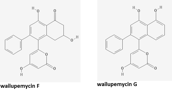 Wailupemycin F and G